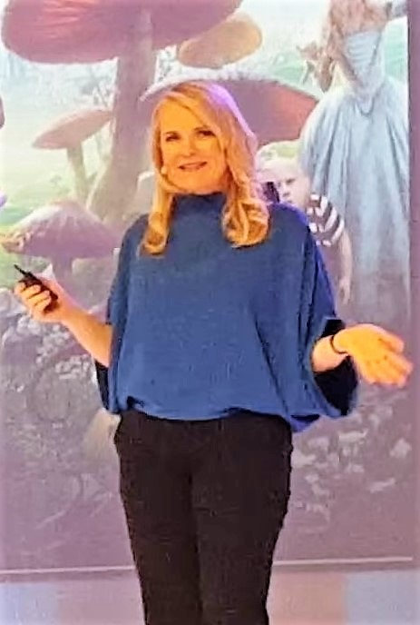 Suzanne Todd Alice Through The Looking Glass Suzanne Todd, producer of Alice Through the Looking Glass, discusses her film.